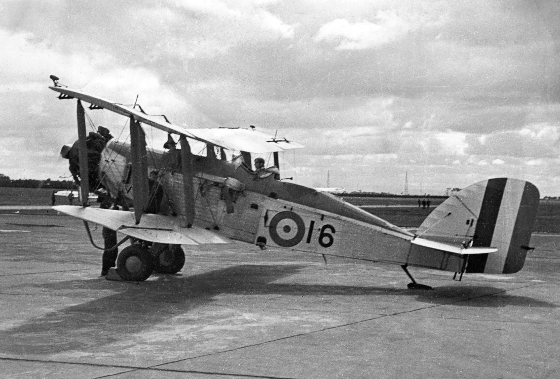 Point Cook, Victoria. Cadet Ian Frederick Rose prepares for a solo flight in a Westland Wapiti at No. 1 Flying Training School, 1938.